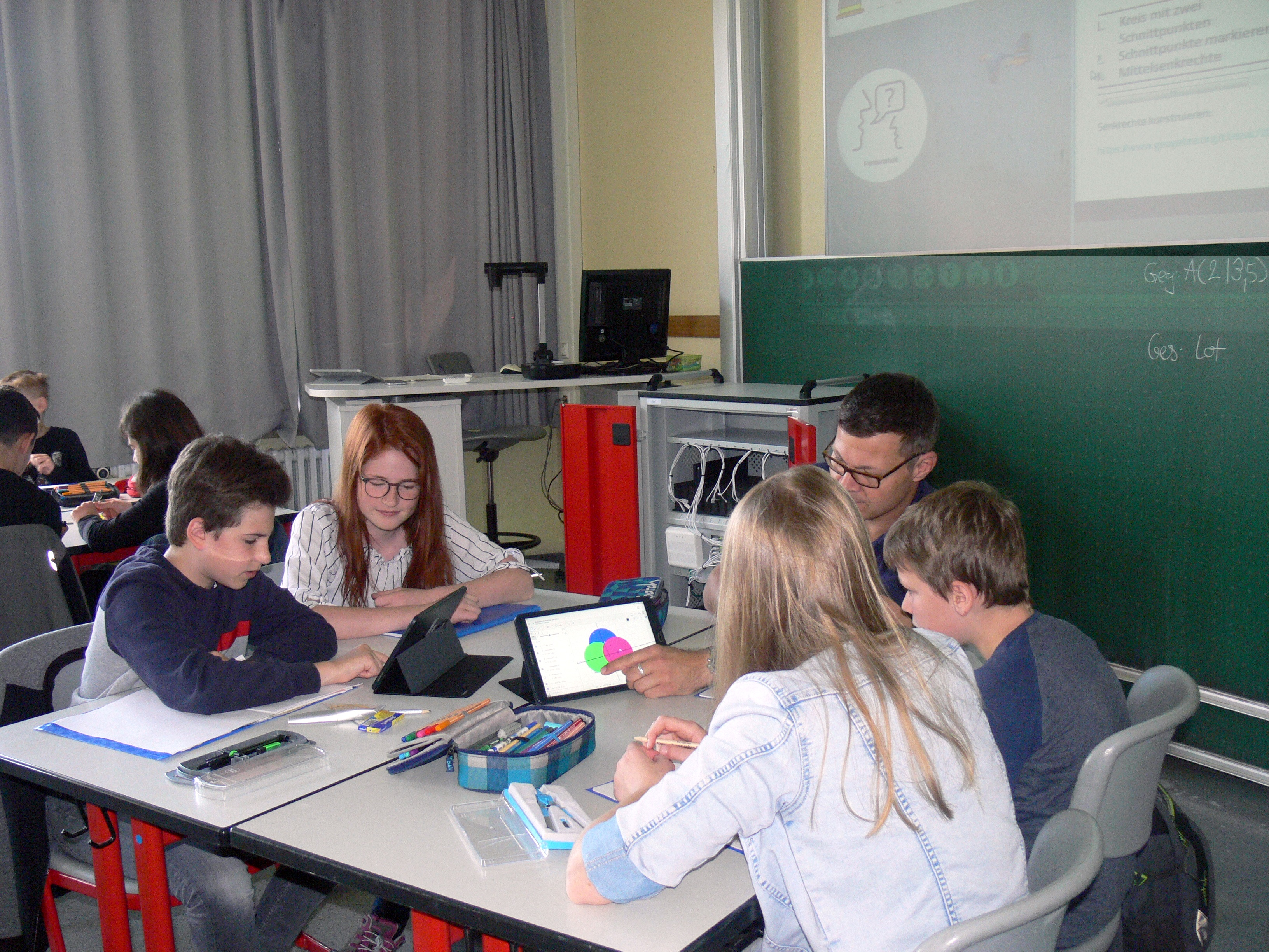 Math, Geometry, School, Tablet